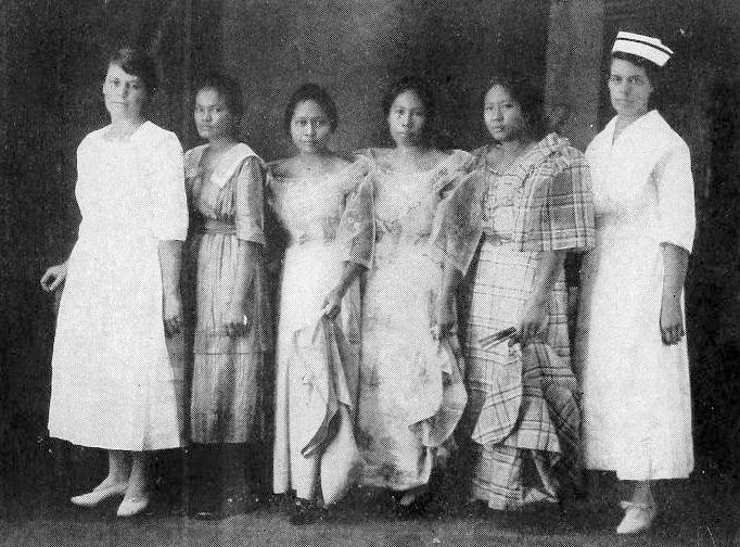 Six women standing in a row indoors. The first woman on the left is white, wearing a white dress. The second woman in Filipina, wearing a western-style dress; the next three women are also Filipinas, wearing "butterfly sleeve" formal dresses; the sixth woman is white, and tall, and wearing a white nurse's uniform and cap.